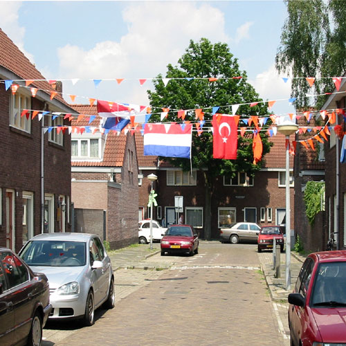 Turkish and Dutch flags hanging side by side in the multi-ethnic neighborhood Kruidenbuurt, Eindhoven, The Netherlands